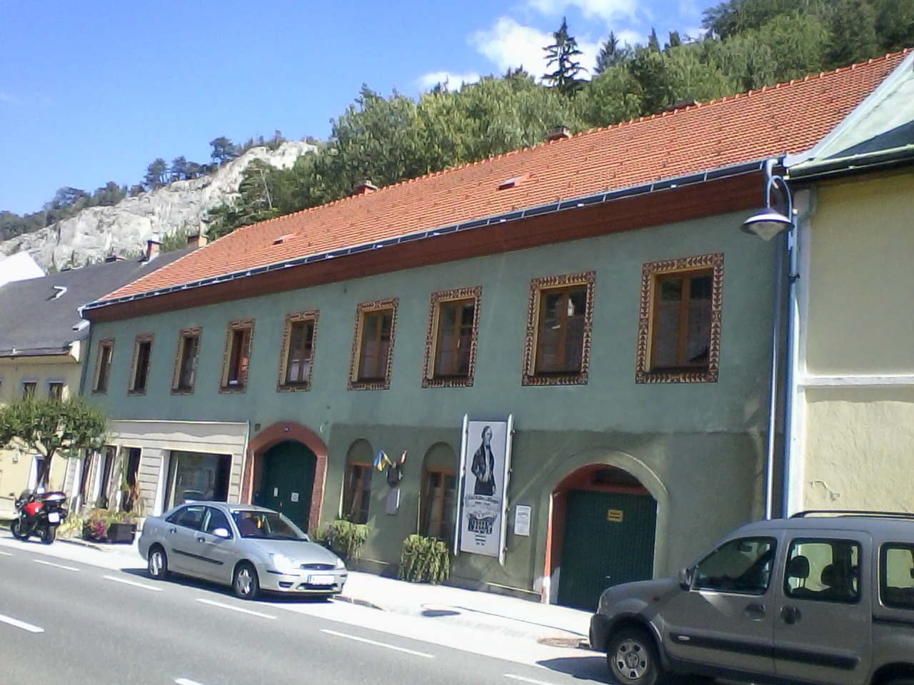 Schottwien/Austria: Former inn "Zur Goldenen Krone".